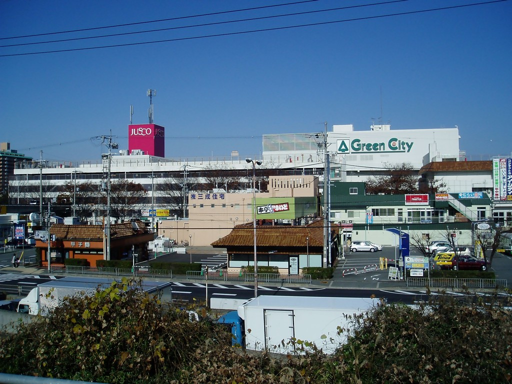 AEON-MALL Neyagawa greencity Outline